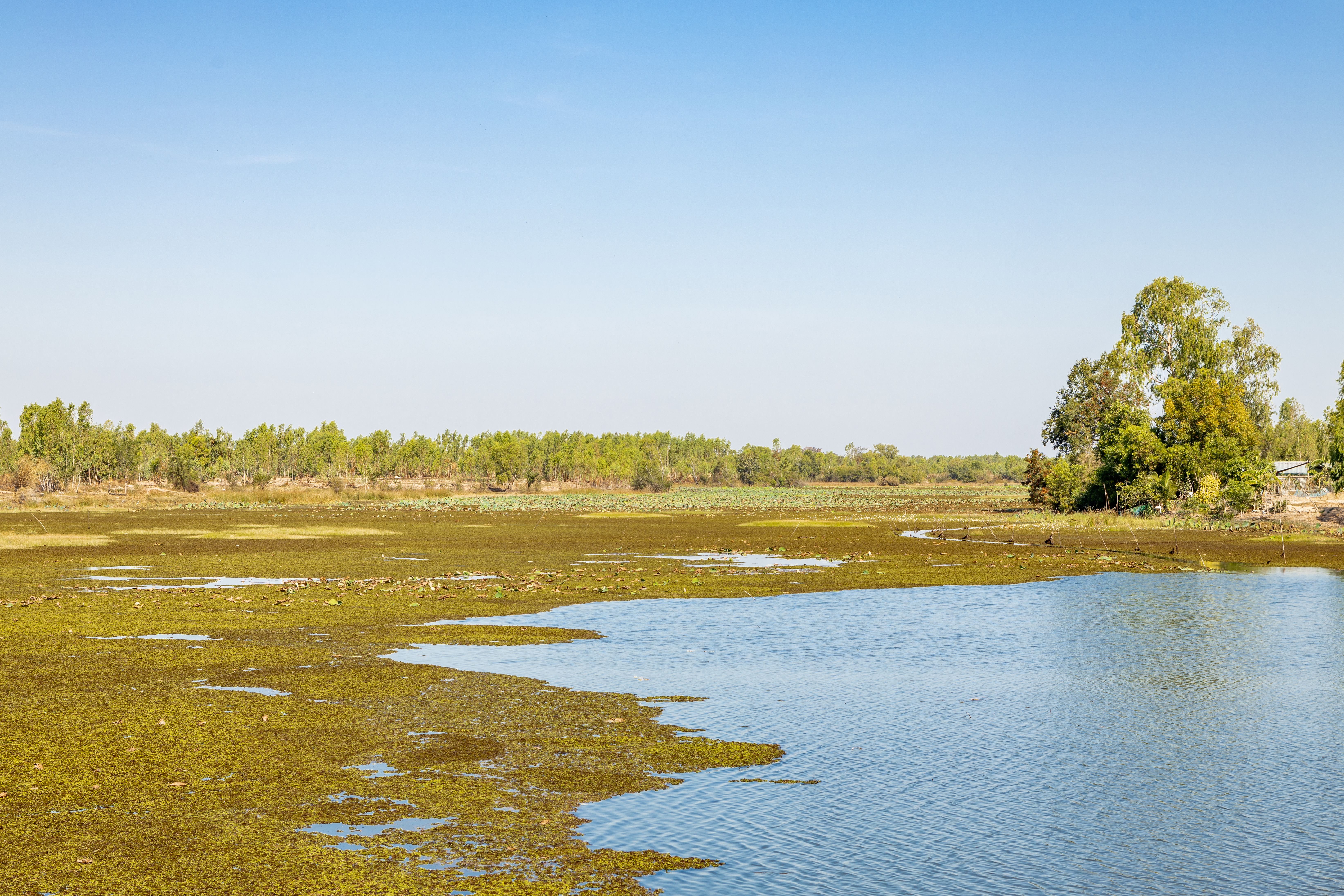 One oxbow lake from Mun River in Ra Sisalai district, Sisaket province, Thailand.